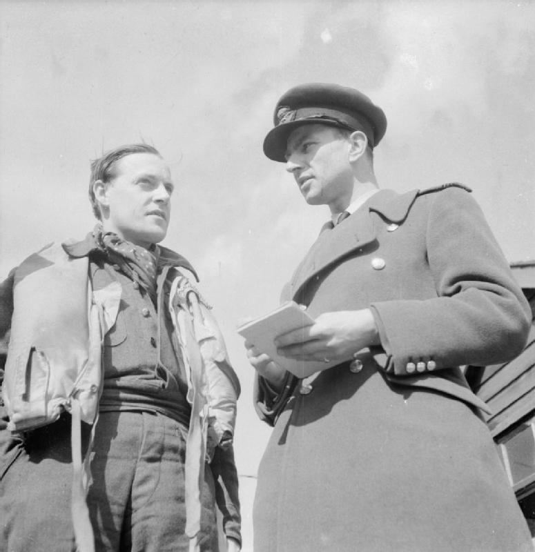 Royal Air Force Fighter Command, 1939-1945. Squadron Leader P M Brothers (left) Commanding Officer of No. 457 Squadron RAAF, describing a sweep over northern France to the Squadron Intelligence Officer at Redhill, Surrey. Brothers was a Battle of Britain veteran who flew with Nos. 32 and 257 Squadrons RAF during the Battle of Britain. He was given the task of forming No. 457 Squadron in January 1941 and led them until May 1942. He later commanded No. 602 squadron RAF and led the Tangmere, Milfield, Exeter and Culmhead Wings in succession. HIs final victory score was 15.